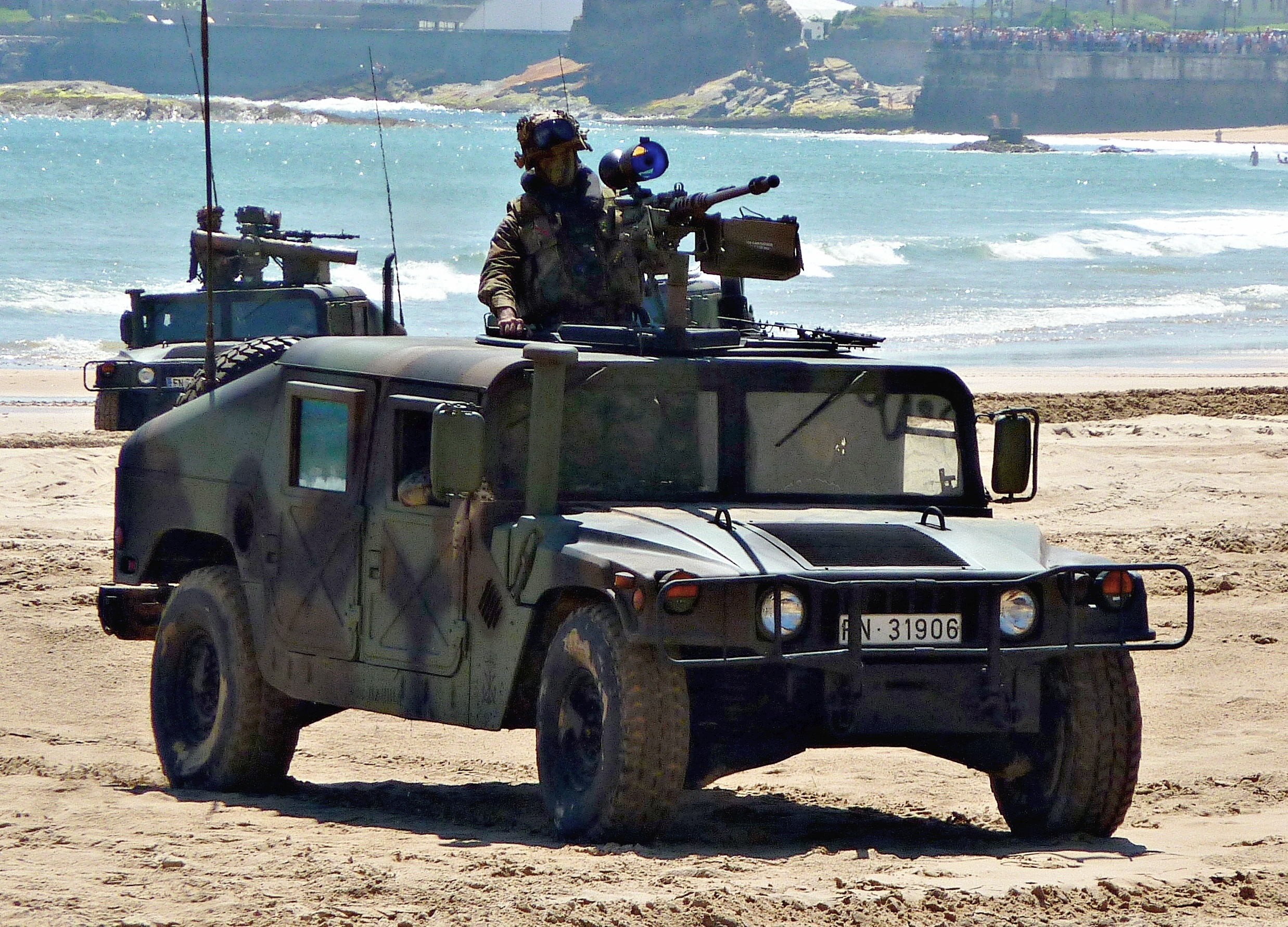 Humvee Browning M-2 of the Spanish Marines.